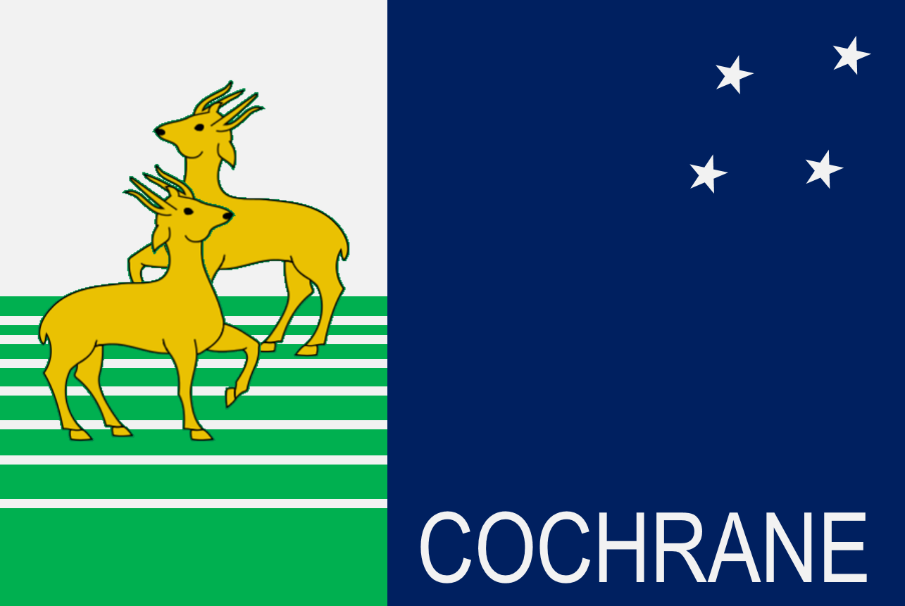 Flag of Cochrane city, Chile